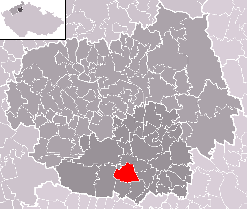 Location of Račiněves municipality within Litoměřice District and administrative area of Roudnice nad Labem as a Municipality with Extended Competence.